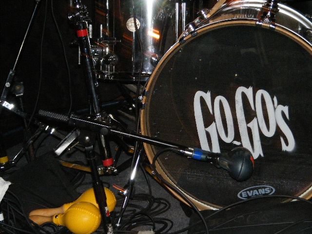 The Go-Go's at Antone's in Austin, TX. Belinda Carlisle (vocals), Charlotte Caffey (lead guitar), Kathy Valentine (bass), and Gina Schock (drums). Jane Wiedlin had to leave suddenly due to illness in her family. Local guitarist Eve Monsees filled in on rhythm guitar for the rest of the tour. Photo by Ron Baker.